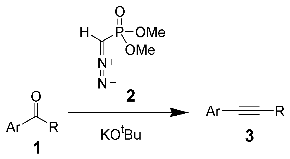 Description: Reaction scheme of the Seyferth-Gilbert homologation. Author, date of creation: selfmade by ~K, 29 December 2005. Source: - Copyright: Public domain. (PD) Comments: high-resolution b/w PNG; ChemDraw / The GIMP.